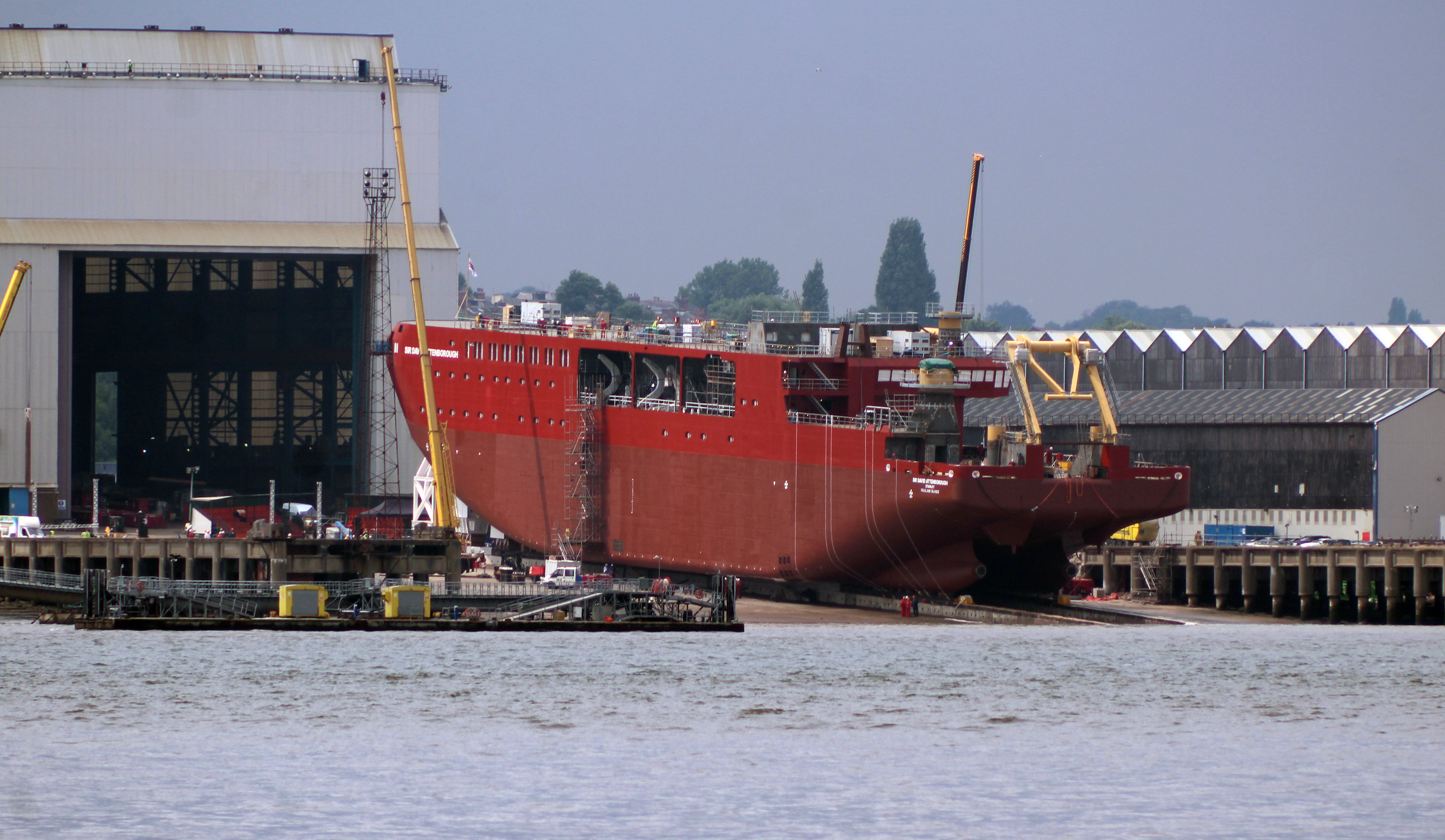 The Sir David Attenborough on the slipway at Cammell Laird's shipbuilding hall the day before her launch.